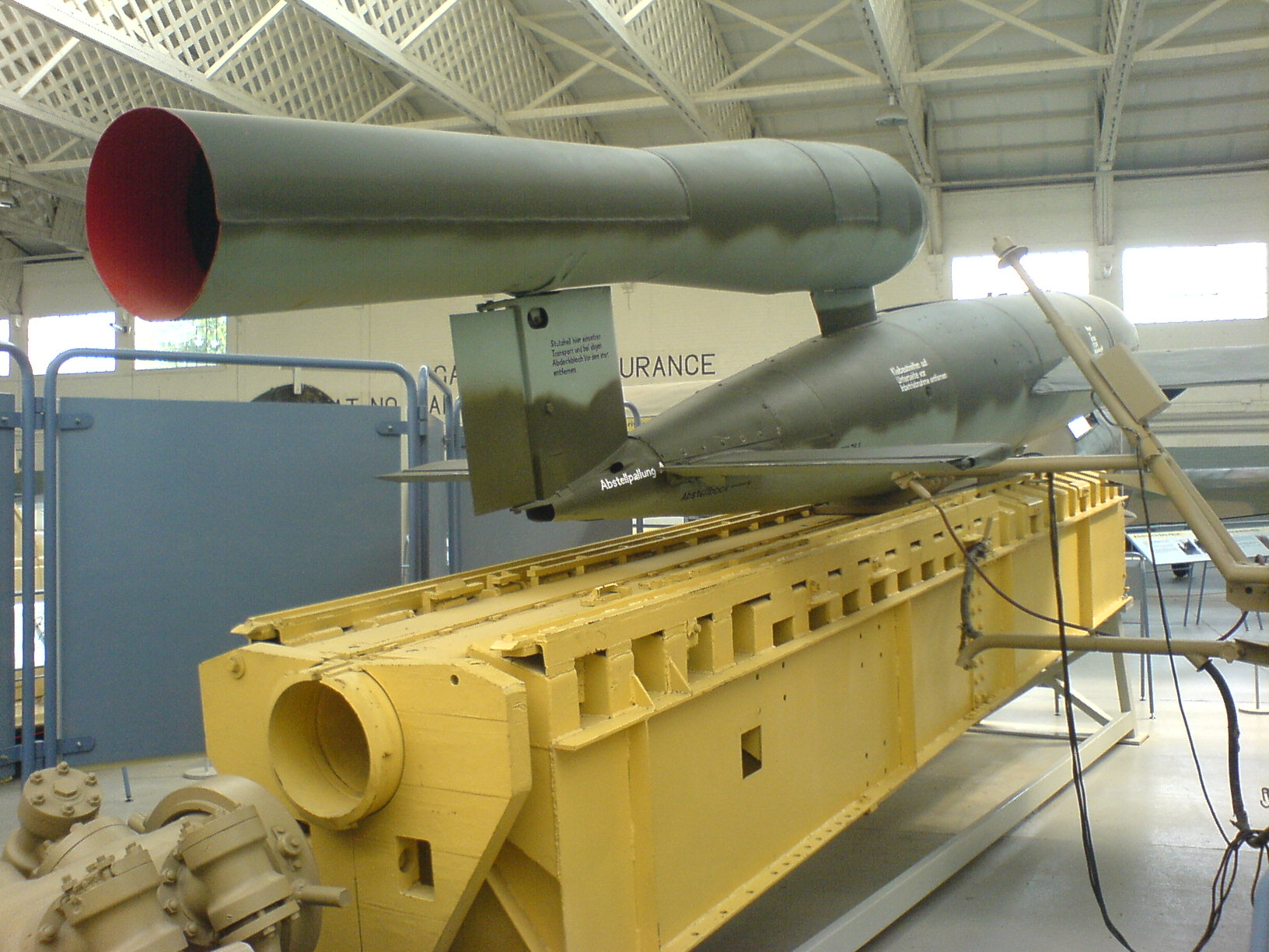 Doodlebug at the Imperial War Museum